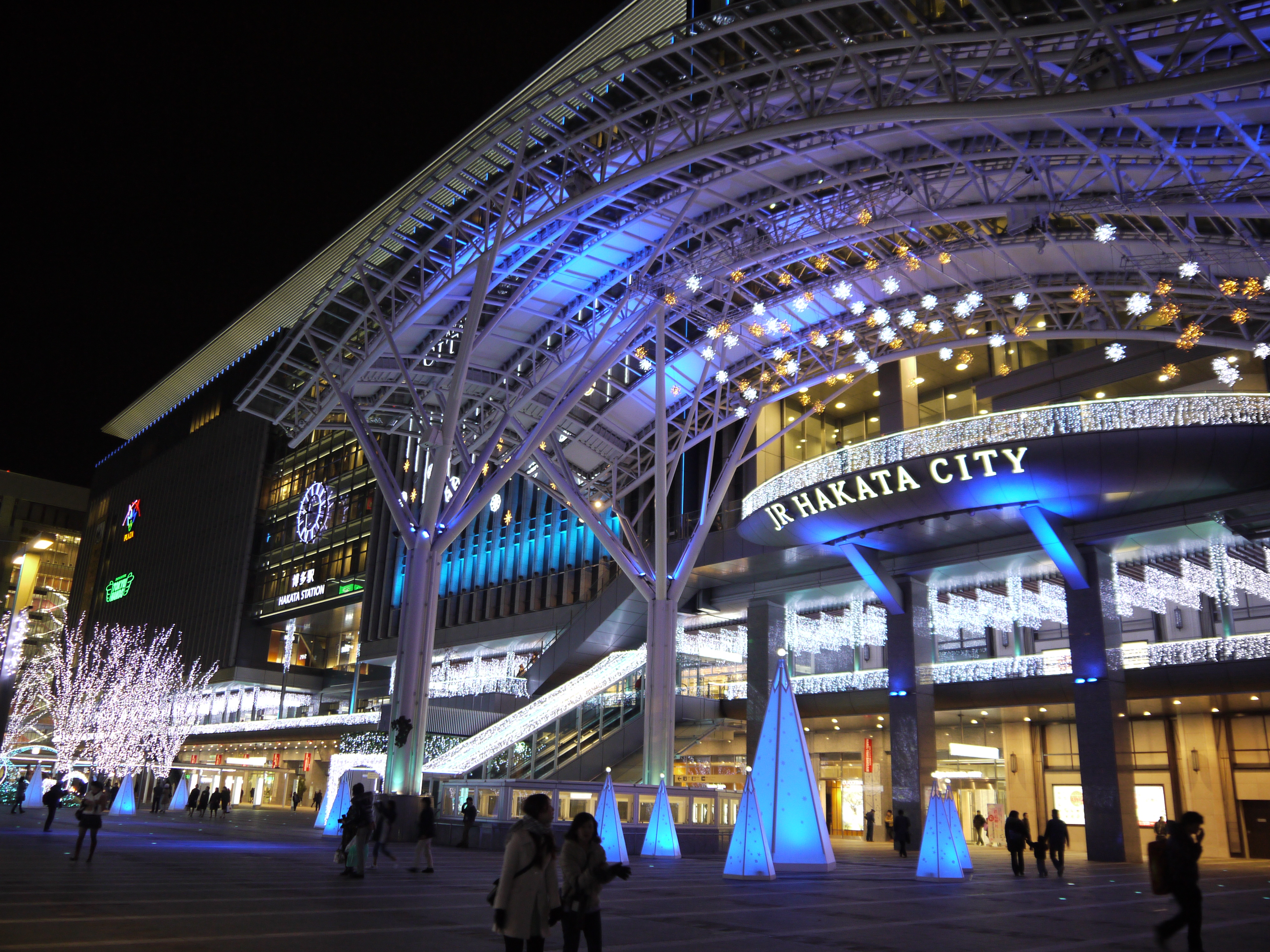 JR Hakata City at night